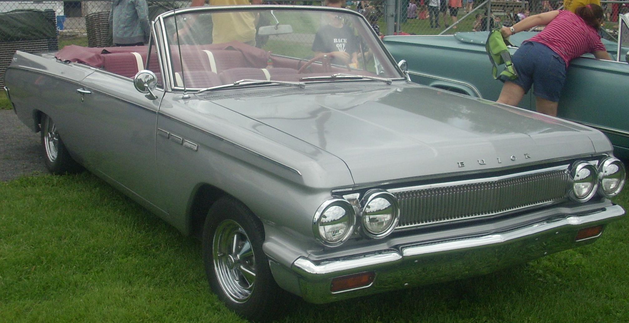 Buick Skylark photographed in St. Lazare, Quebec, Canada at the 2010 St. Jean Baptiste Classic Car Show.